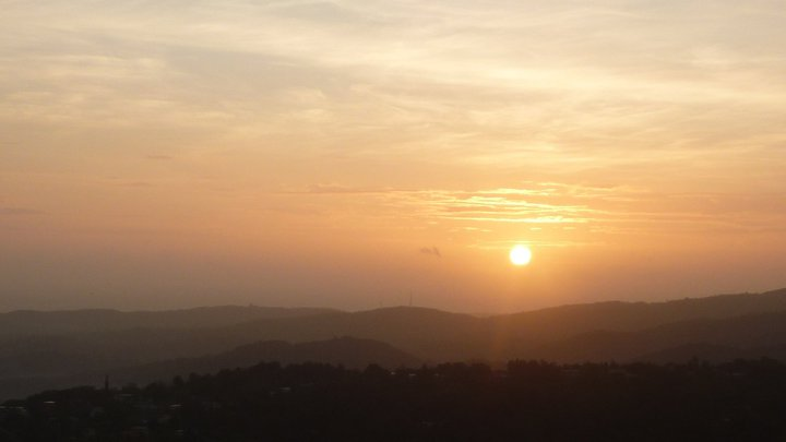 Sunset from "El Yunque" in Palma Sola.